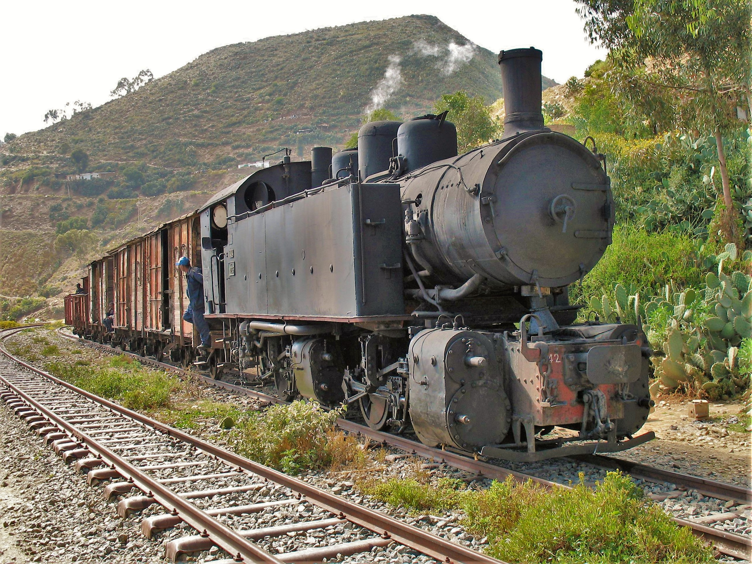 This Ansaldo 442 steam locomotive was build in 1938. It is still in use in Eritrea for transporting cargo from the port city of Massawa to the capital Asmara almost 2.5 km higher. It's also used as a tourist attraction as the climb is one of the steepest and most spectacular ones one can make with a steam train in the world.